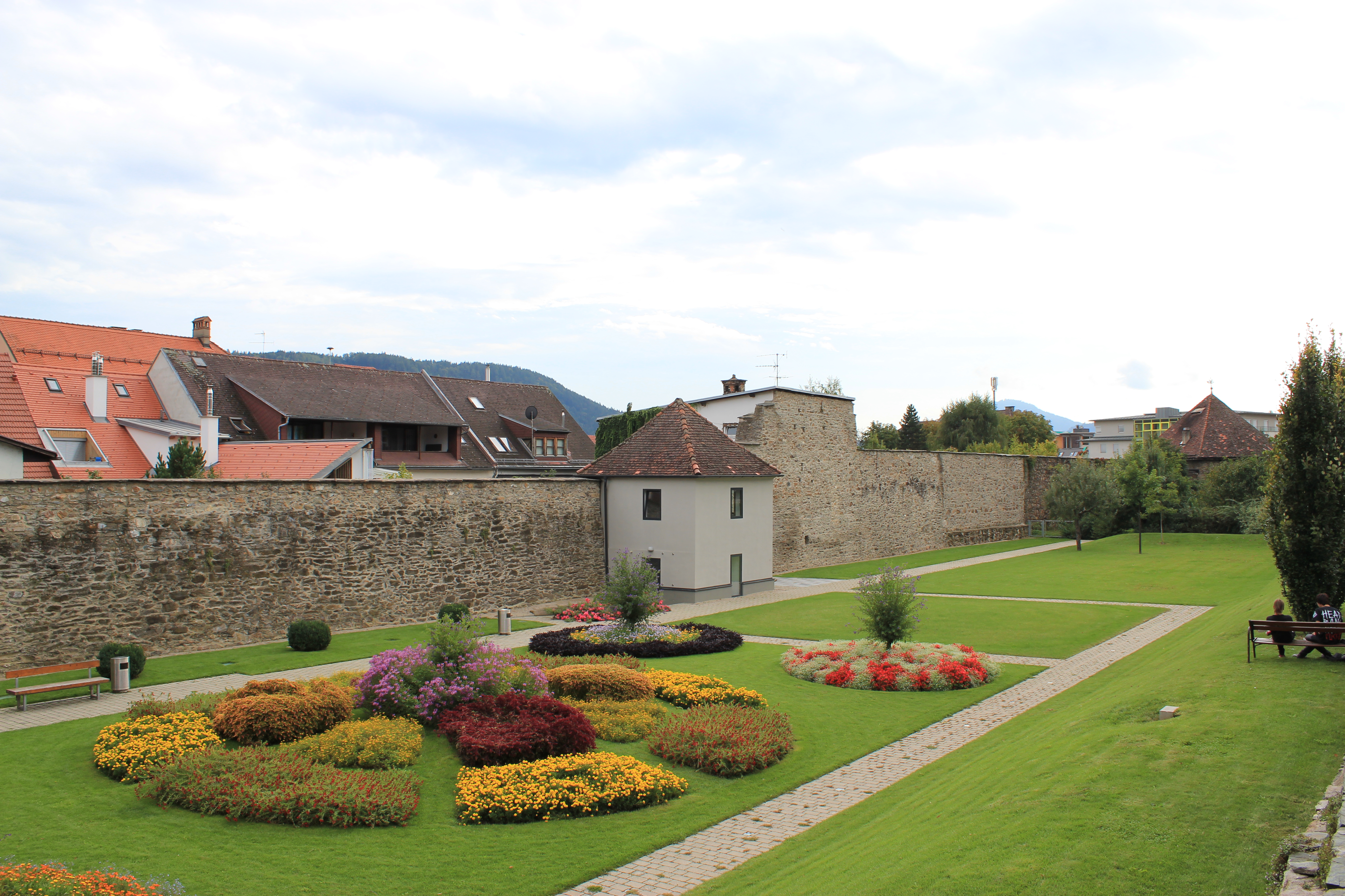 Fortification in Sankt Veit an der Glan